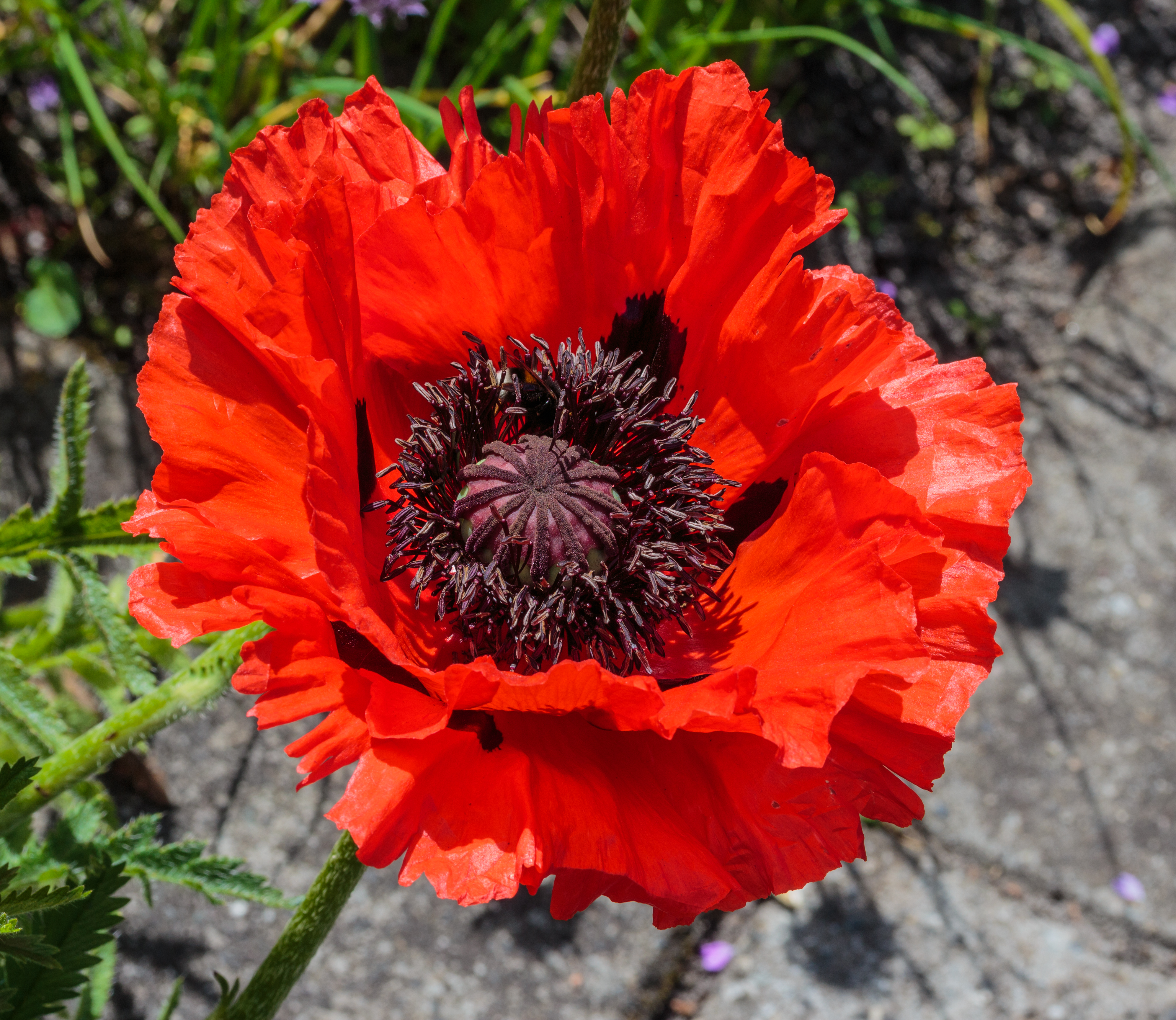 Papaver oriëntale. Location, Mien Ruys Gardens. Mien Ruys Gardens have been developed in the last century by the internationally renowned Dutch landscape architect Mien Ruys. The gardens are located in Dedemsvaart (Overijssel) in the Netherlands.